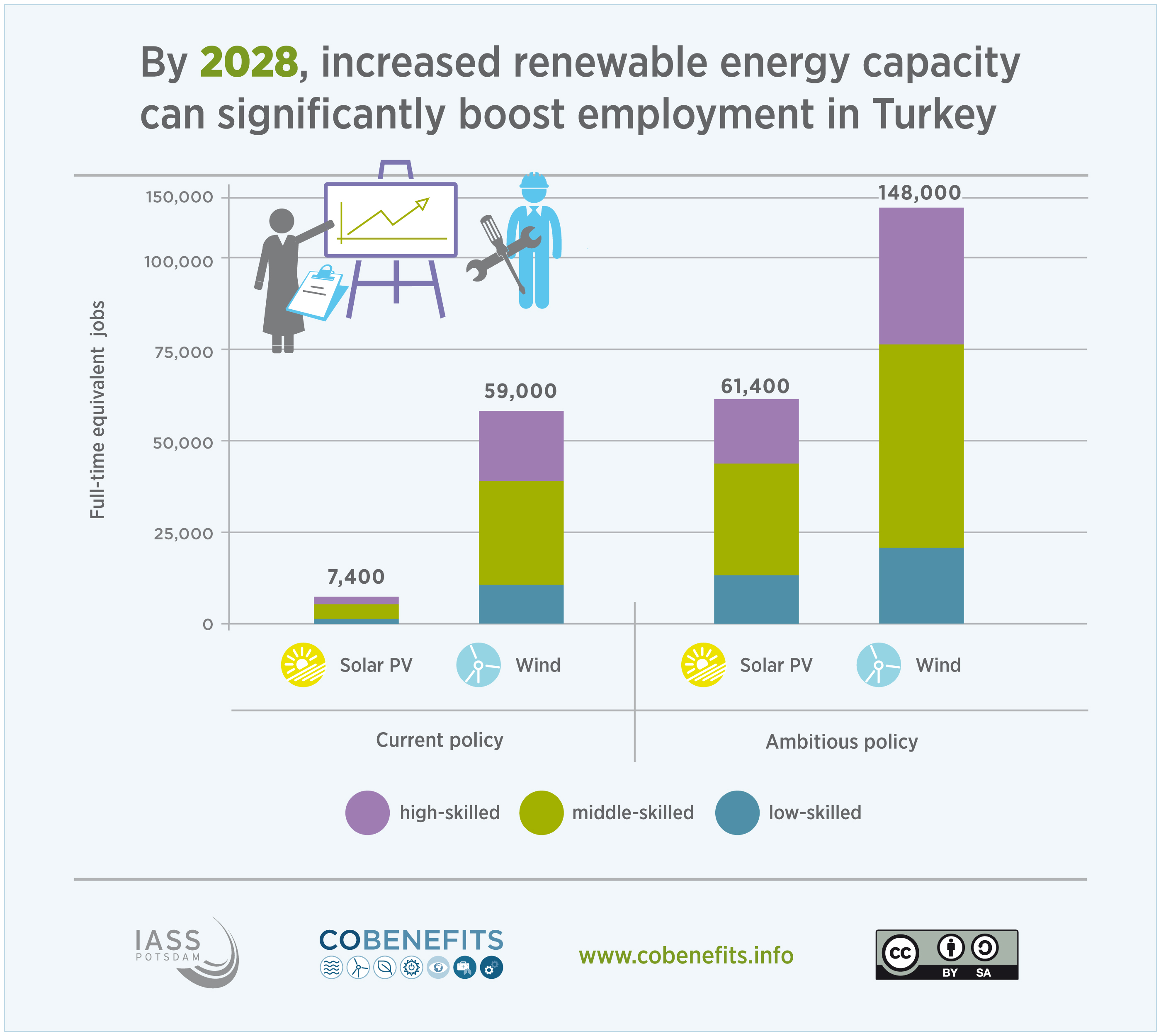 Current and ambitious policies for wind and solar power to 2028 with increases in employment in Turkey